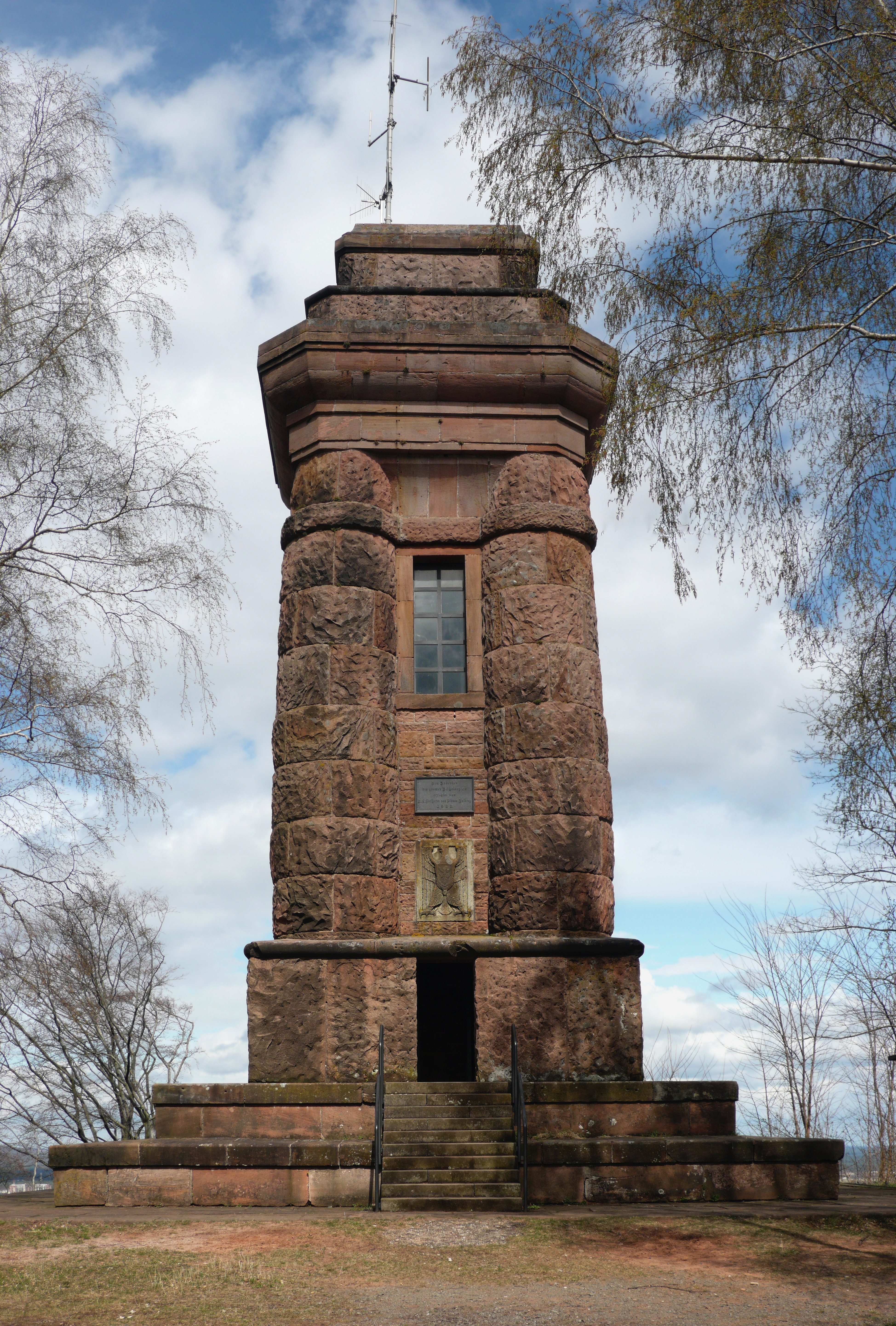 Bismarckturm of Landstuhl, built in 1900